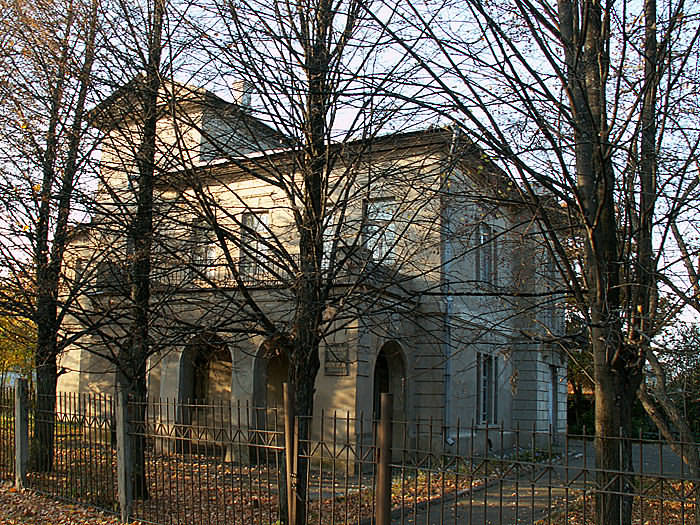 Vichuga Museum of Art — in Vichuga, Ivanovo Oblast.